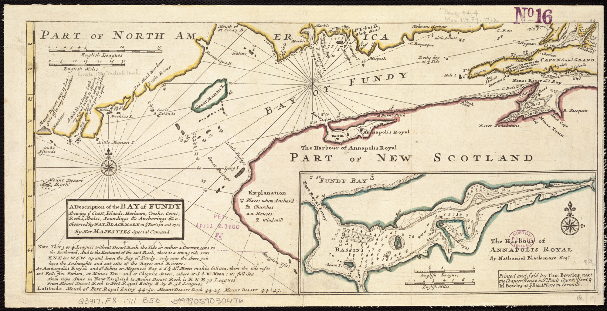 Zoom into this map at . Author: Blackmore, Nathaniel Publisher: Bowles, Thomas Date: 1736 Location: Annapolis Basin (N.S.), Fundy, Bay of Dimension: 21x43cm Scale: [ca. 1:960,000] Call Number: G3417.F8 1711 .B53